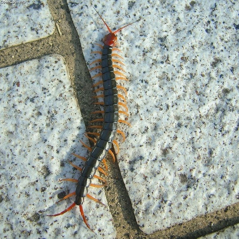 トビズムカデ Scolopendra subspinipes mutilans 鳶頭百足は本州で一番大きな百足の仲間。大きな顎に噛まれると相当痛いらしい。 Location 神戸市西区 Copyright OpenCage